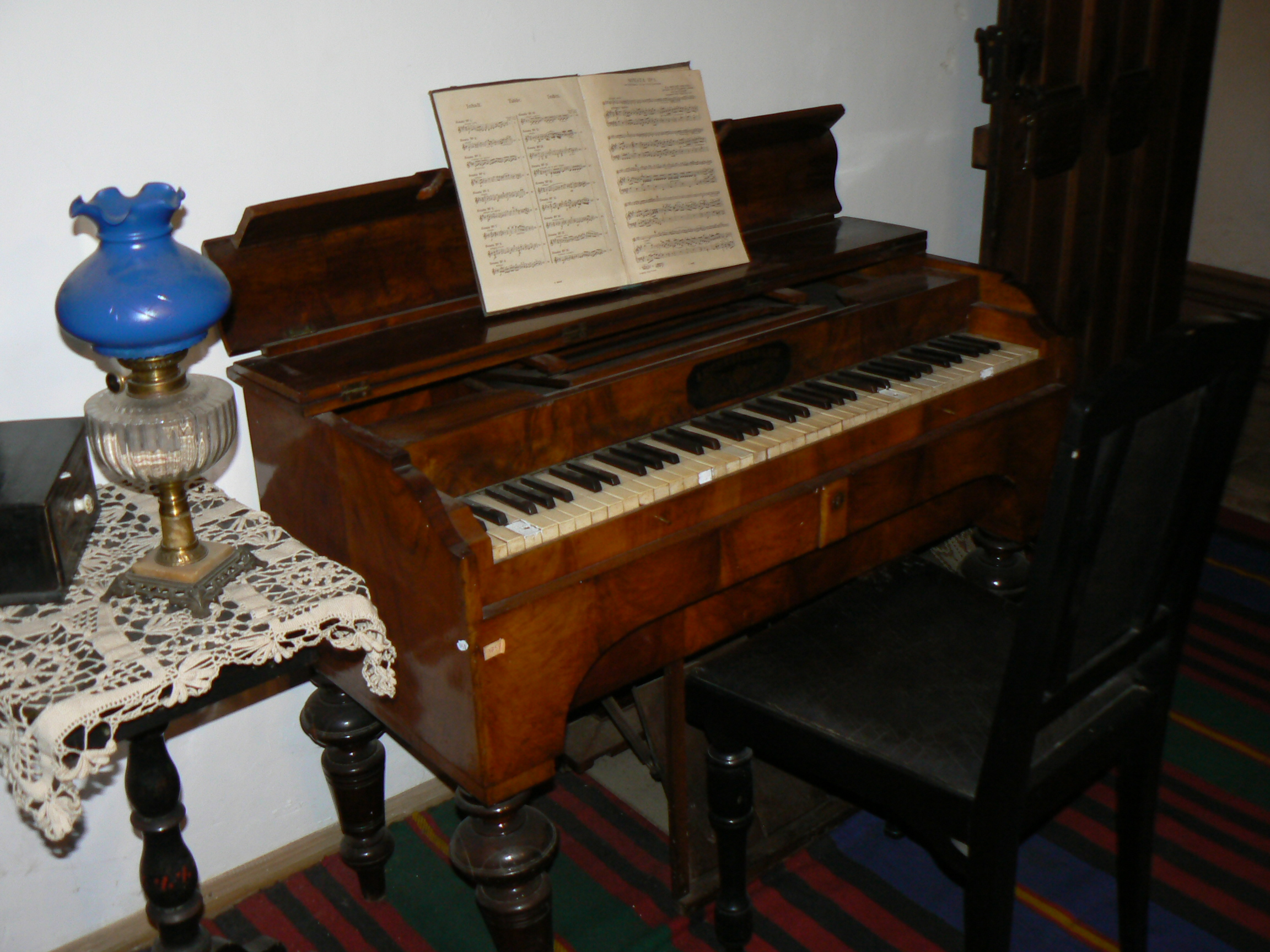 The piano of the Bulgarian composer Panayot Pipkov in his house in Lovech, on which two famous Bulgarian songs were composed